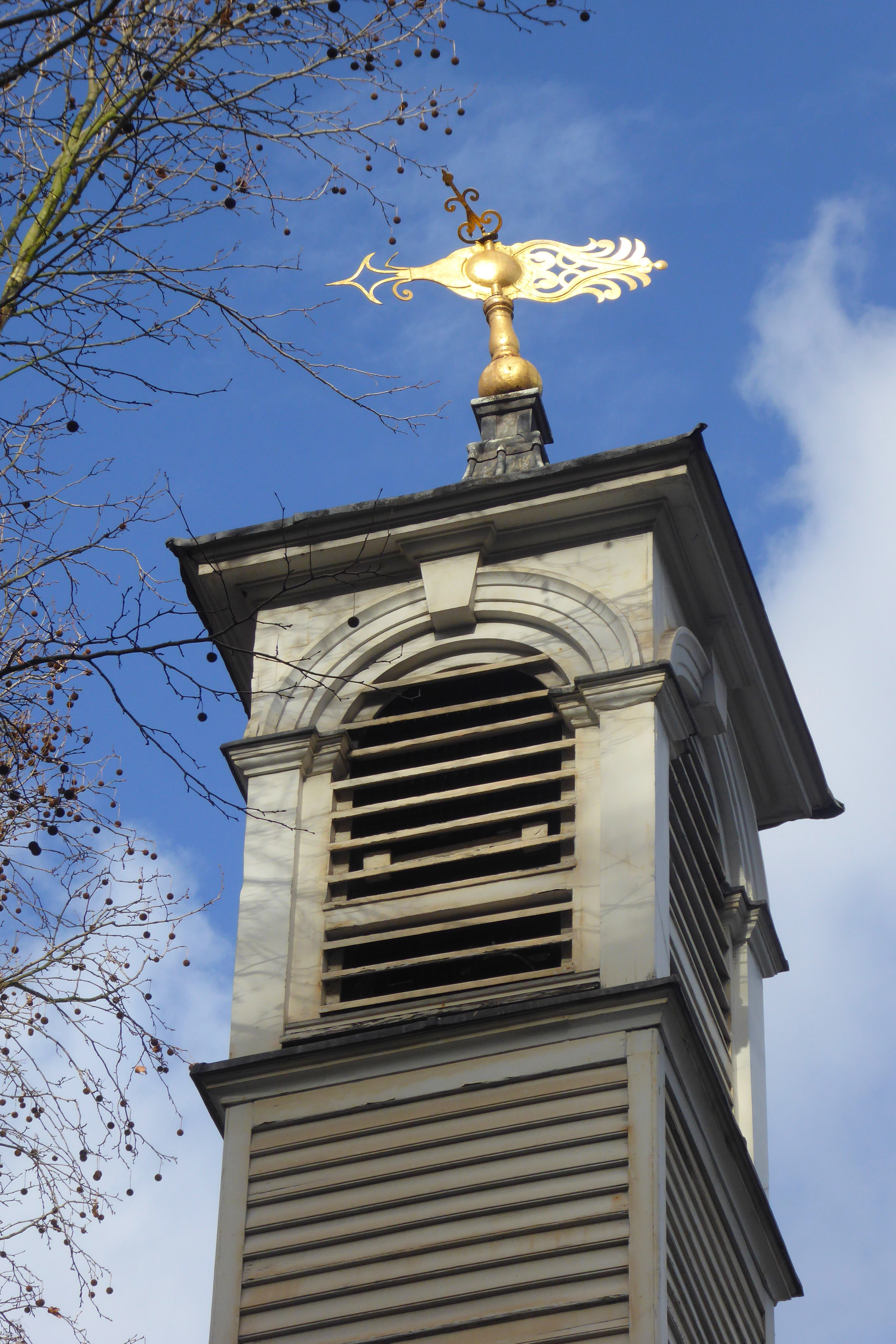 The tower and weather vane atop St Botolph's Aldersgate in the City of London. Photograph taken fromt he adjacent Postman's Park.